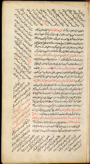 Muntakhab-i Fihi Ma Fihi ("Selection of Fihi Ma Fihi"),Photo related to the part "Basagic's Collection of Islamic Manuscripts in the University Library of Bratislava"